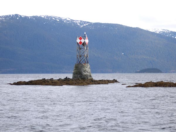 Dayboard / Beacon on Vanderbilt Reef, Lynn Canal, Alaska (site of 1918 wreck of Princess Sophia